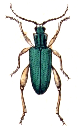 Donacia clavipes, from Calwer's Käferbuch, Table 42, Picture 5. Taxonomy was updated to 2008, using mostly the sites Fauna Europaea and BioLib. Please contact Sarefo if the determination is wrong!